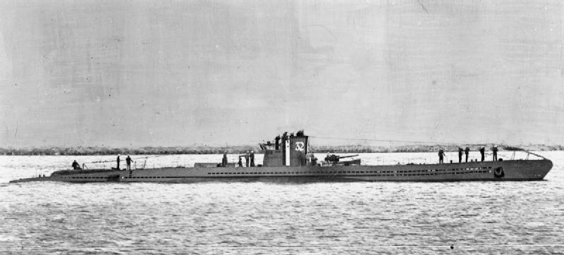 Photograph of German submarine U-32.